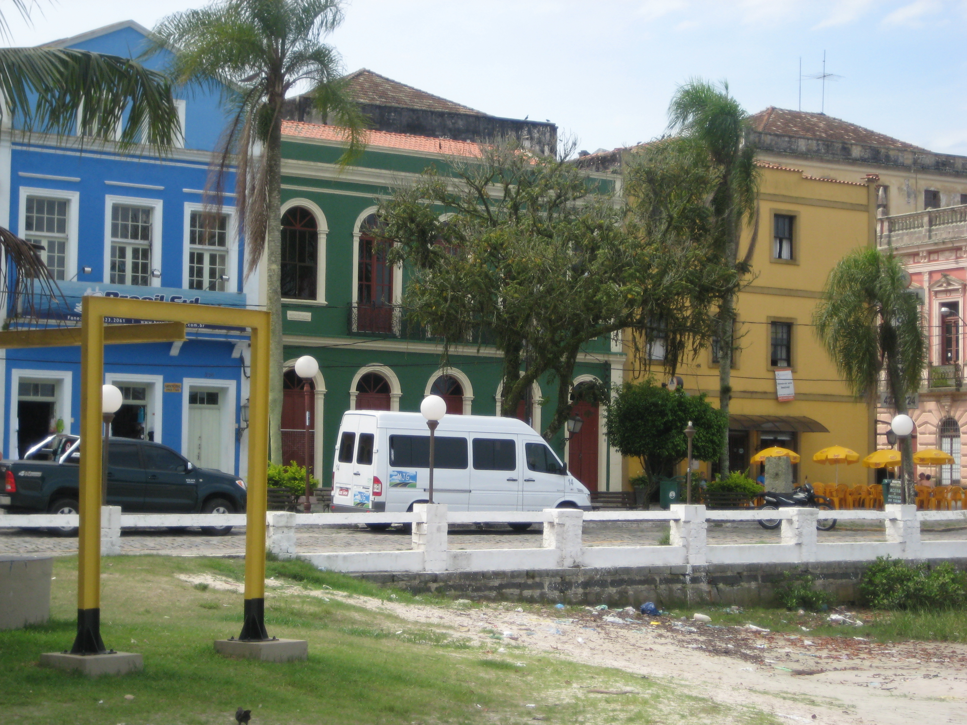 Old port of Paranaguá